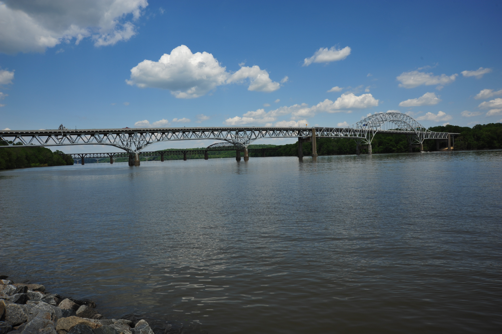 Photo of Hatem bridge in Maryland USA